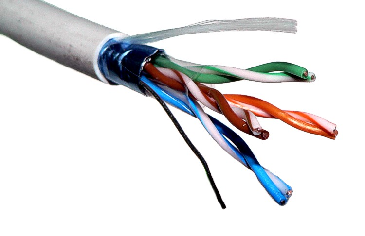 A stripped foiled twisted-pair (F/UTP) cable.